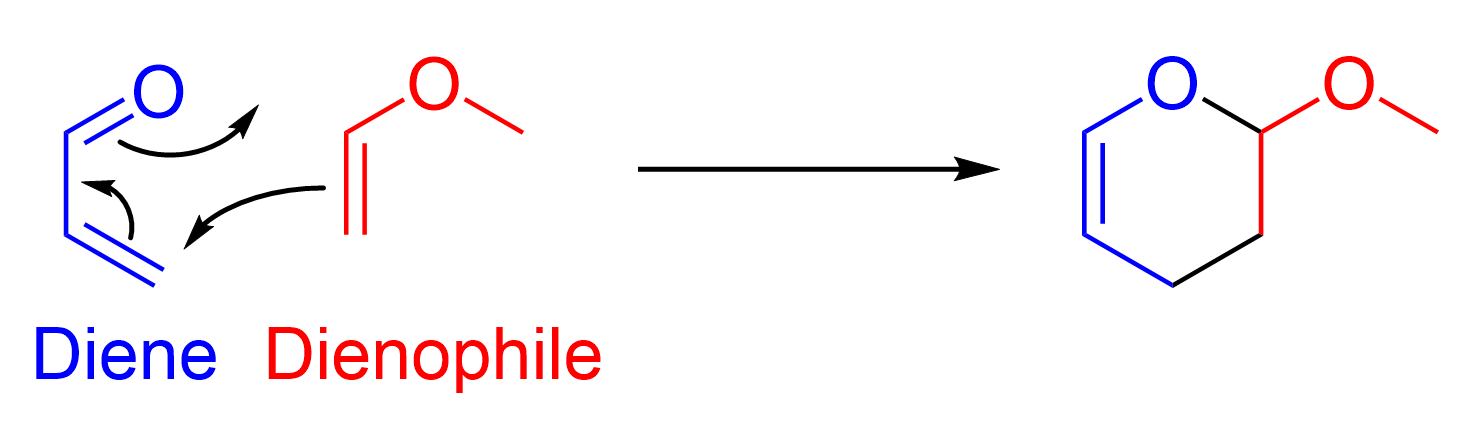 Prototypical DAINV reaction between the electron poor diene Acrolein, and the electron rich dienophile, Methyl vinyl ether.